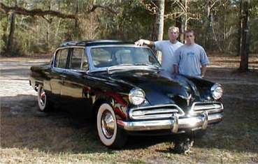 this is a picture of a '53 studebaker landcruiser taken by della mays